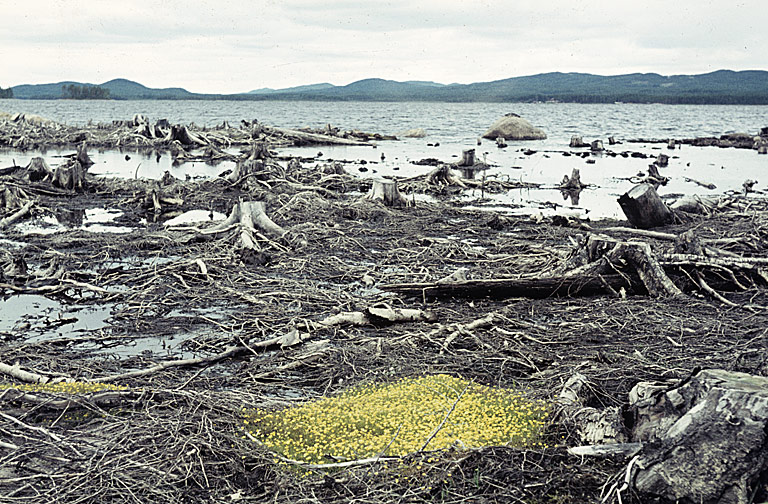 The regulated lake Tisjön in Dalarna, Sweden